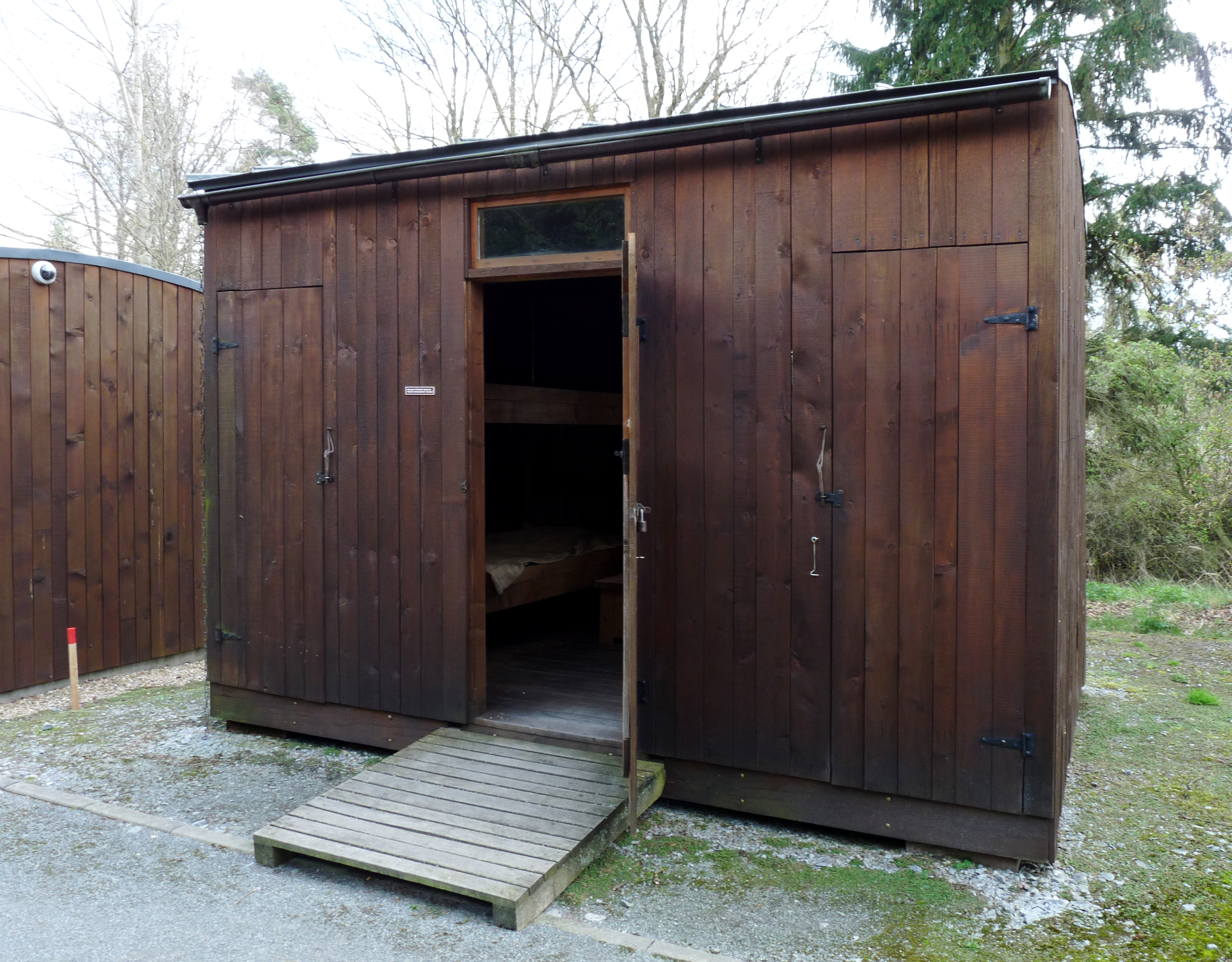 Dwelling unit of the former camp Lety, Písek District, South Bohemian Region, Czech Republic.